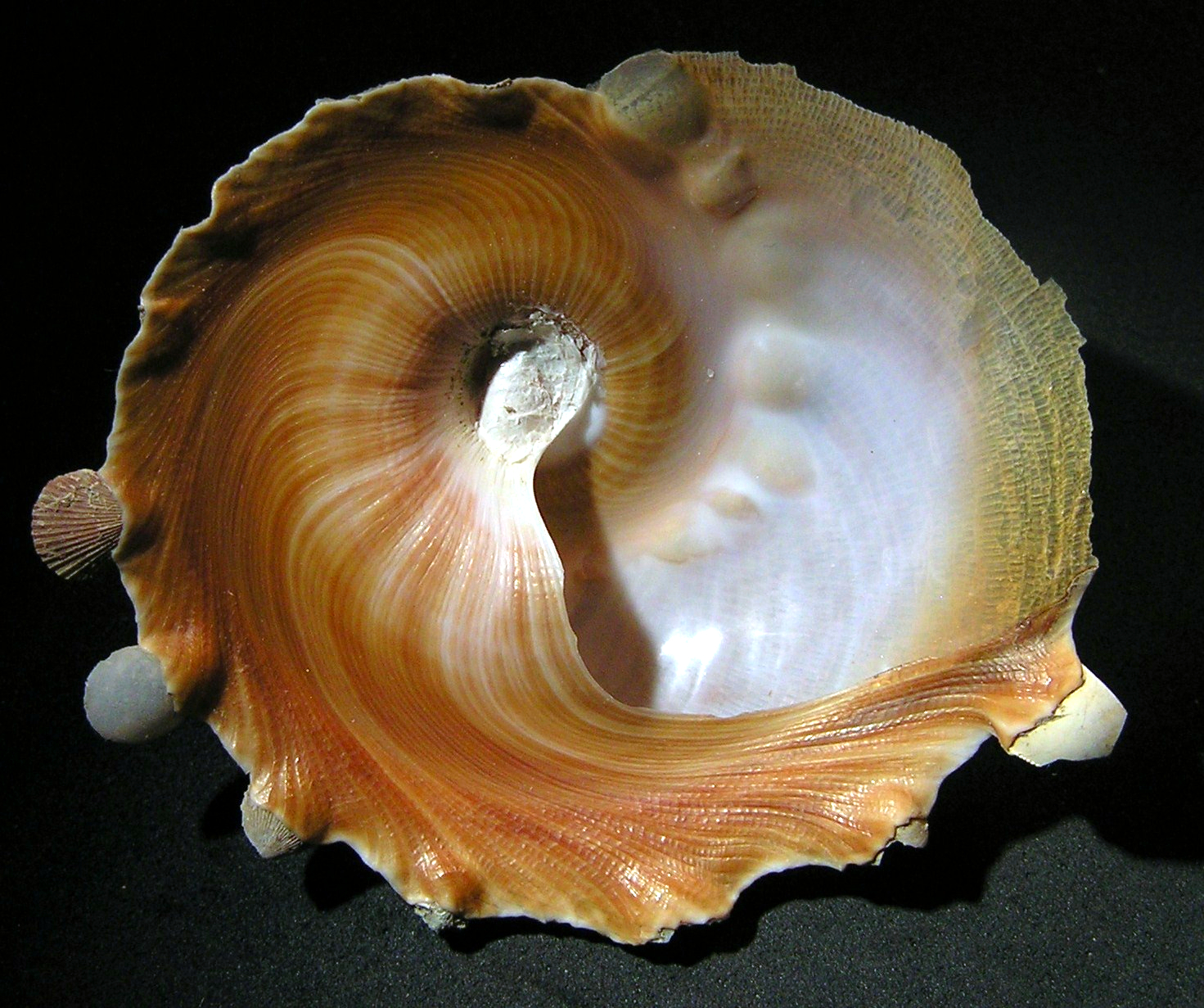 Stellaria chinensis (Philippi, 1841); family Xenophoridae; the Philippines